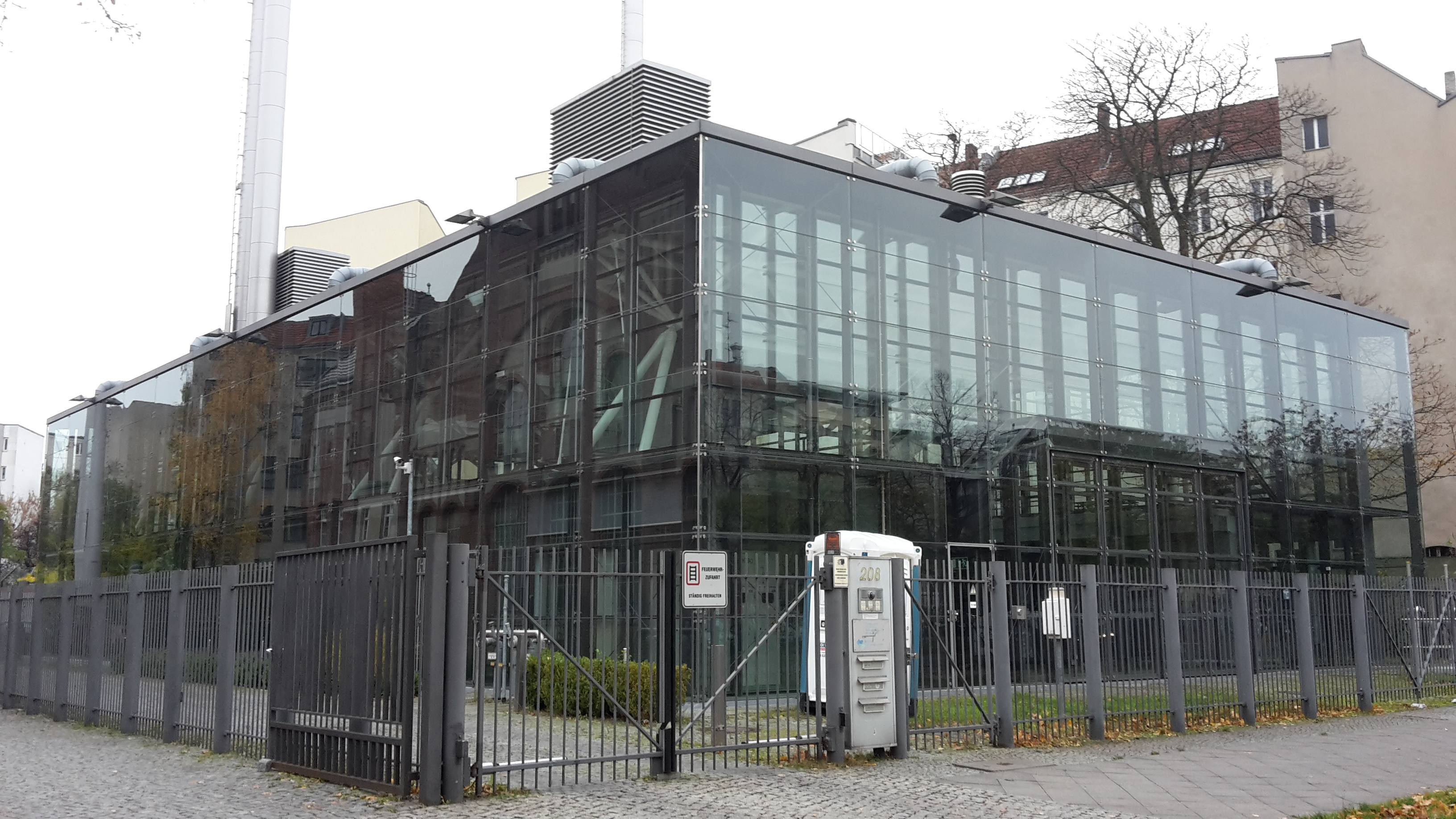 Hohenzollerndamm 208 New pumping station